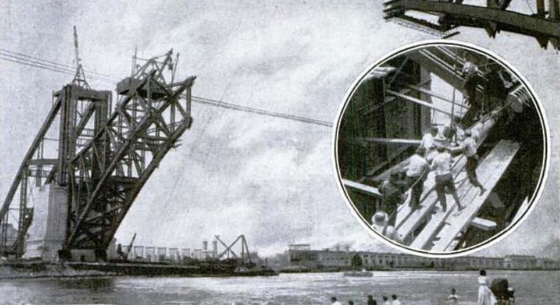 Construction of the Hell Gate Bridge in New York City circa 1915